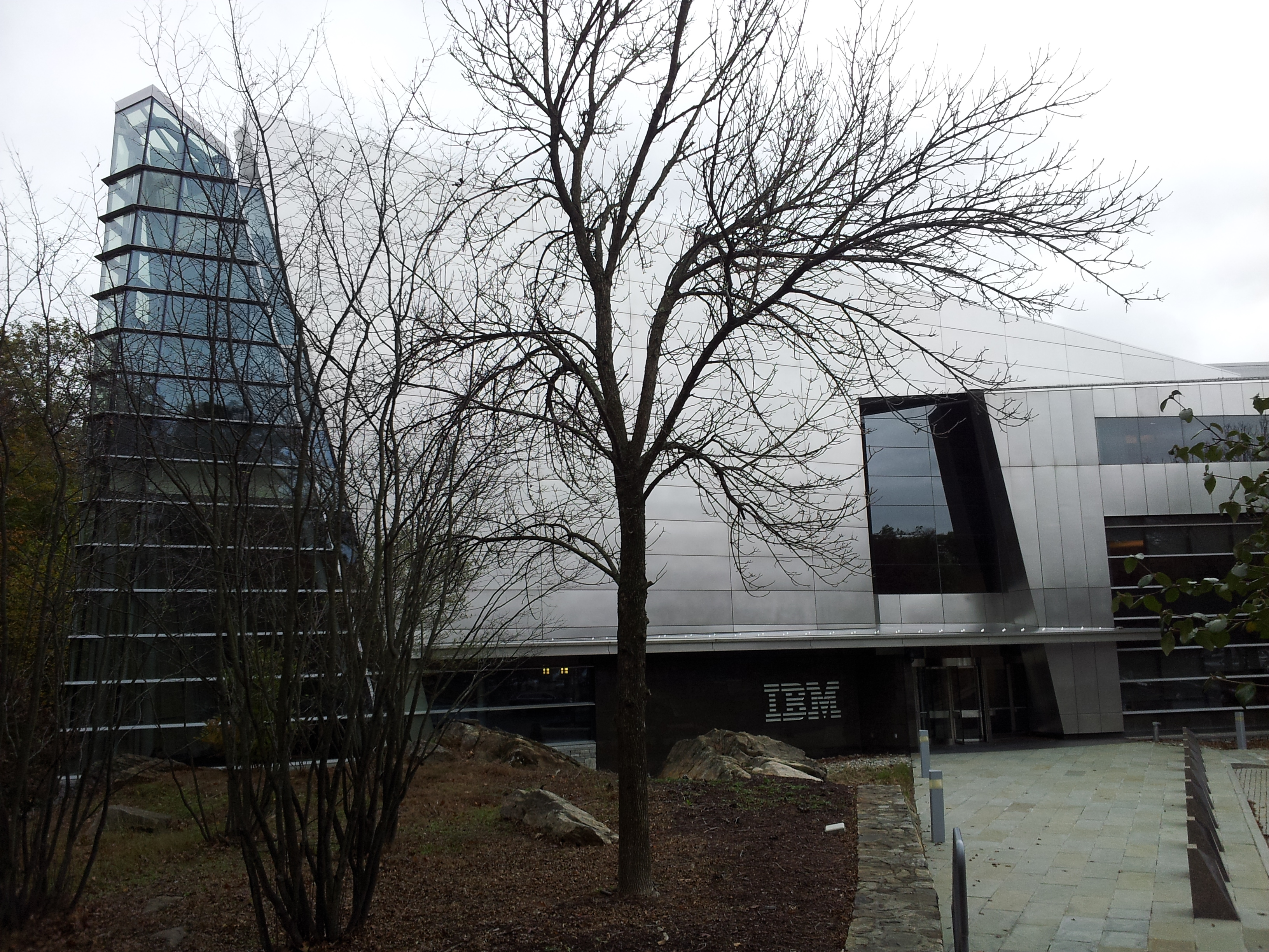 IBM CHQ in Armonk, NY - October 2014